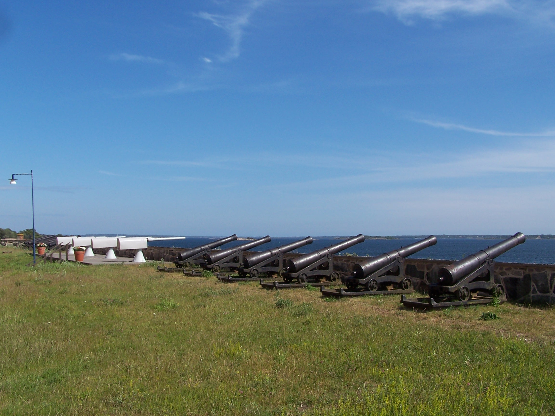 Bastion Kungshall, Stumholmen, Karlskrona